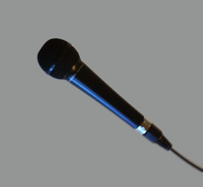 black audio microphone